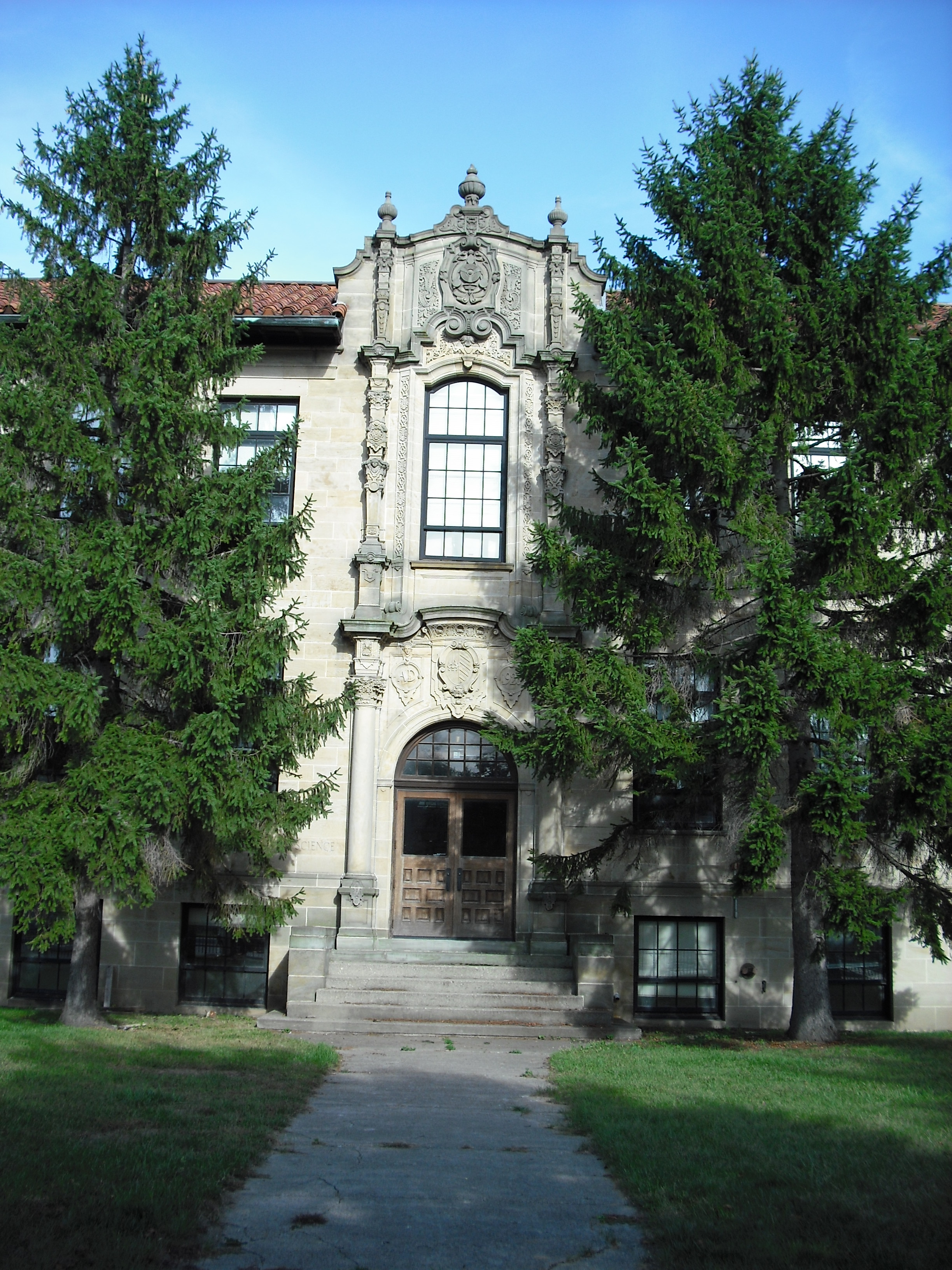 University of Detroit Mercy - School of Architecture Warren Loranger